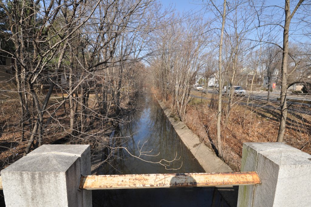 Alewife Brook, looking north from the Mass. Ave bridge on the Cambridge/Arlington (Massachusetts) line. The Alewife Brook Parkway is visible to the right.